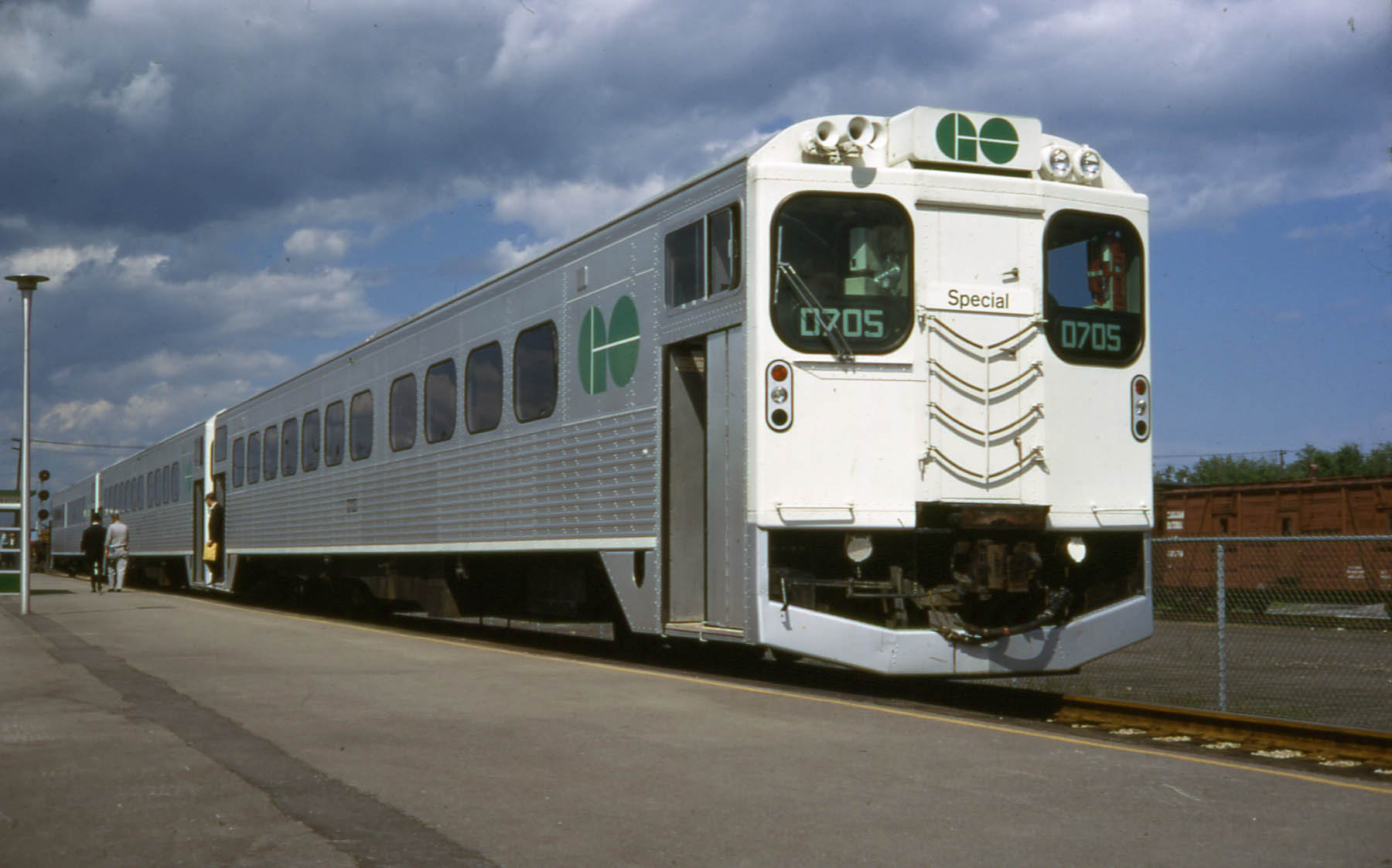 19680706 27 GO Transit Oakville, ON